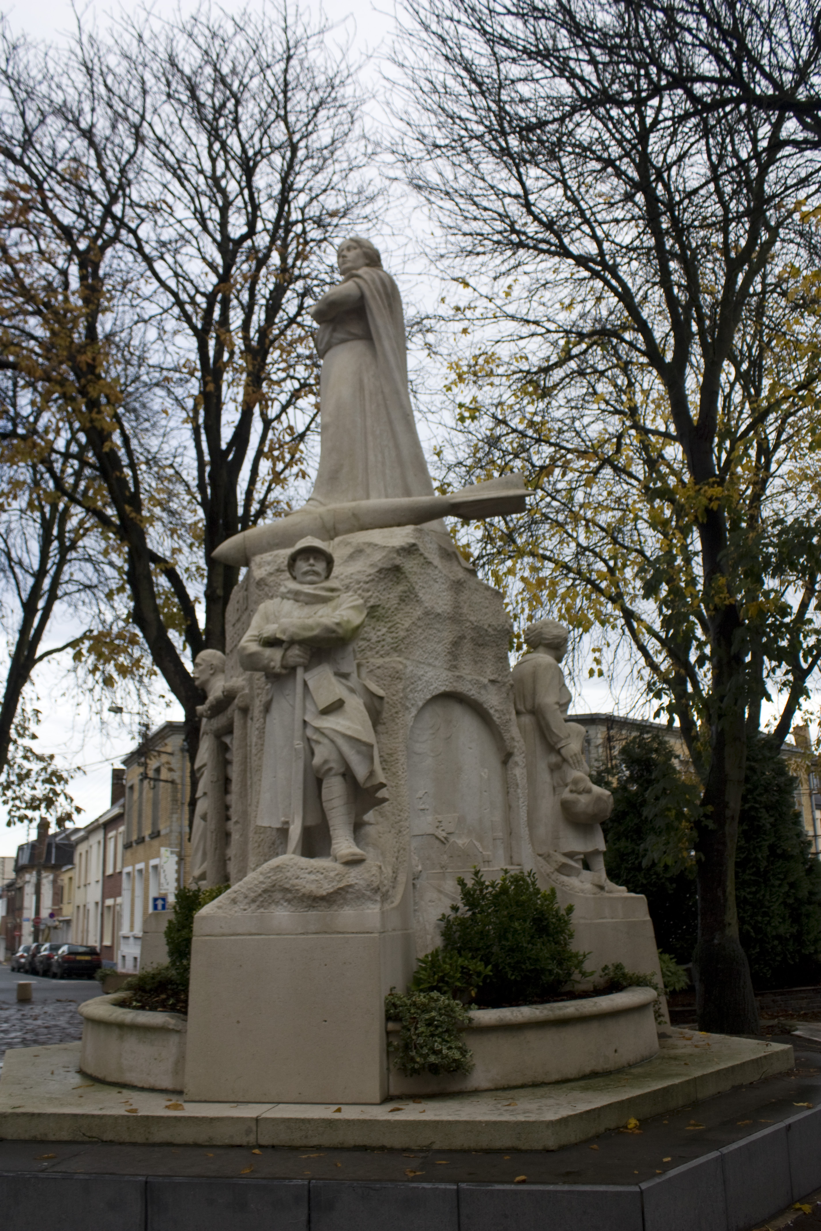 At right, a tribute to soldiers killed in battle.